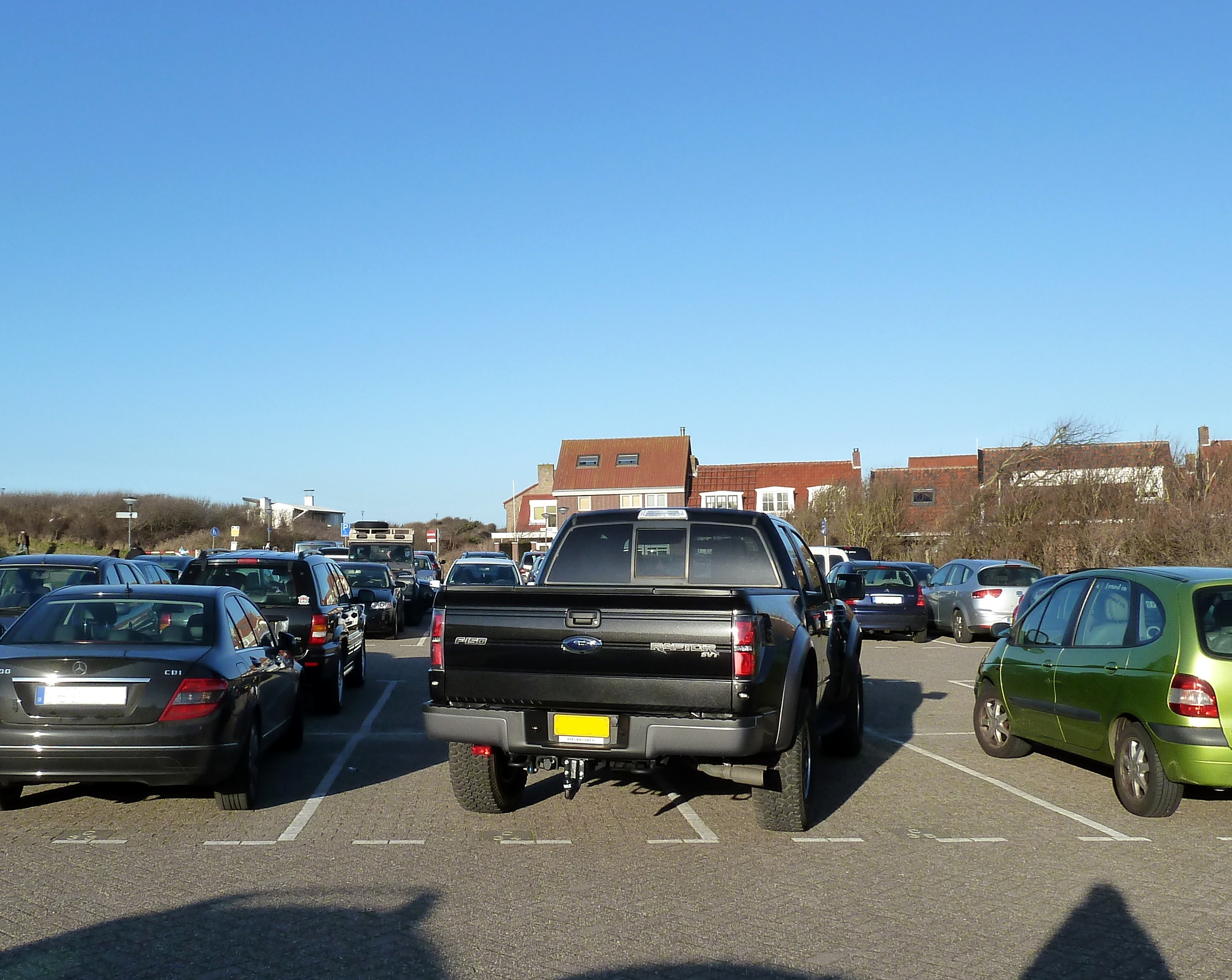 Anti-social parking